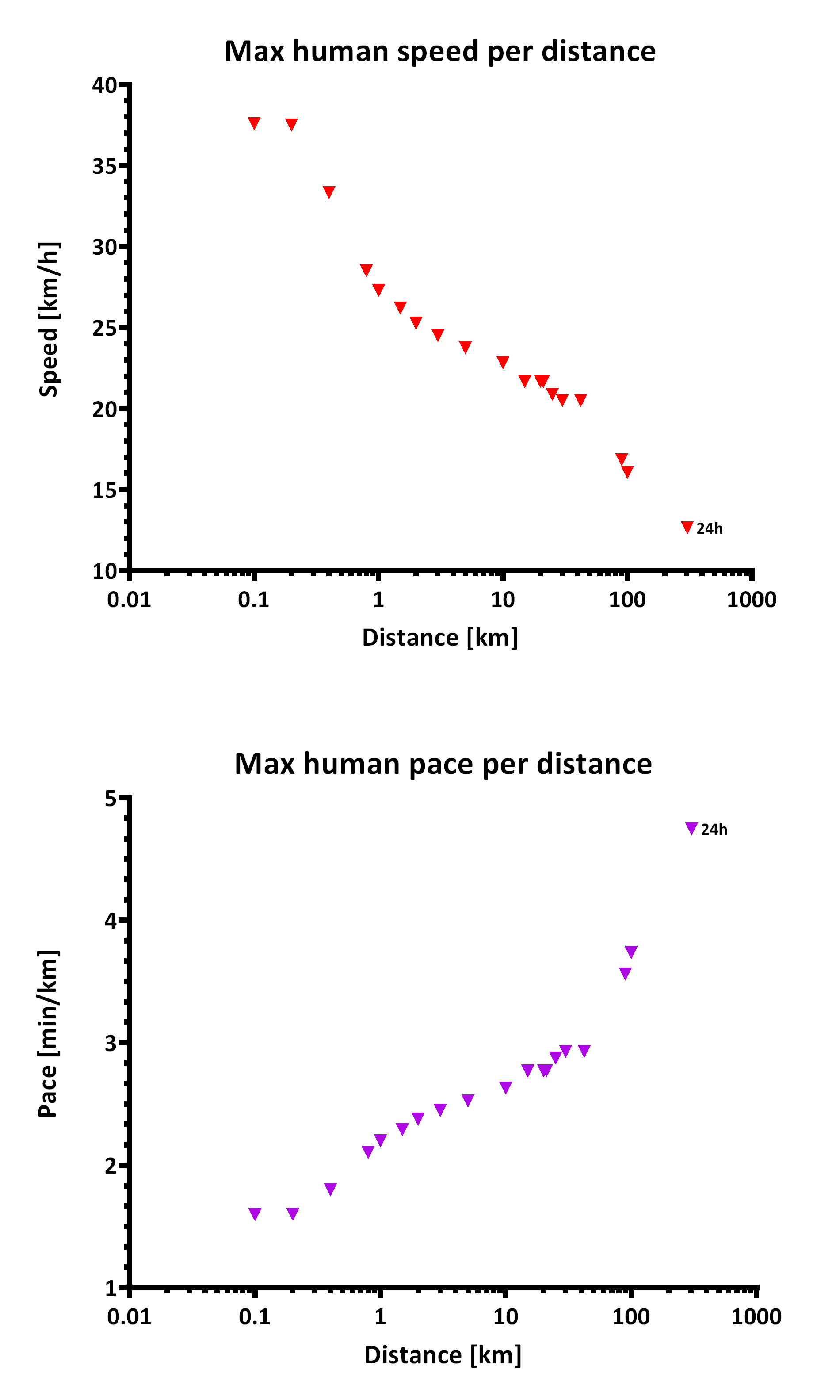 Maximum human speed [kmh] and pace [min/km] per distance (portrait orientation)